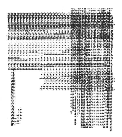 A 'typestract' by H.N.Werkman, 1923-29